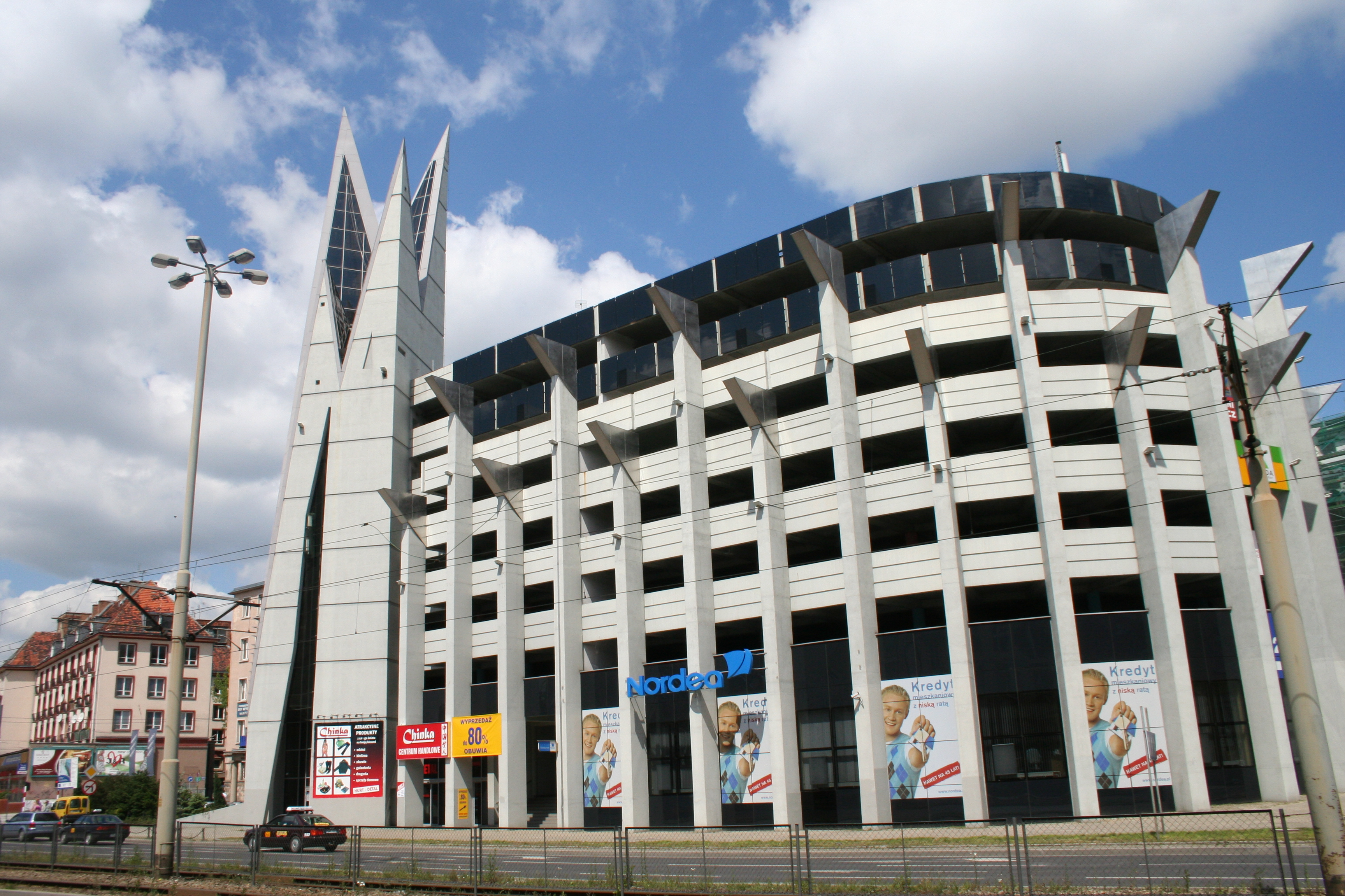 Poland, Wroclaw, Szewska Centrum, a multi-storey car park with a shopping and office part in Szewska Street